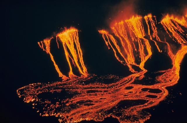 Kilauea Iki lava fountains and flows with the beginning of the lava lake, Kilauea, Hawaii, United States